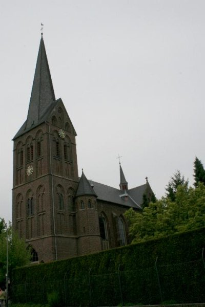 Cultural heritage monument No. 330 in Erkelenz